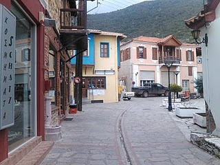 Galatista, Chalkidiki, Central Macedonia, Greece